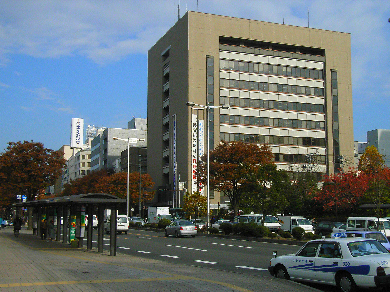 Aoba Ward Office of the Sendai City. Sendai, Miyagi prefecture, Japan.